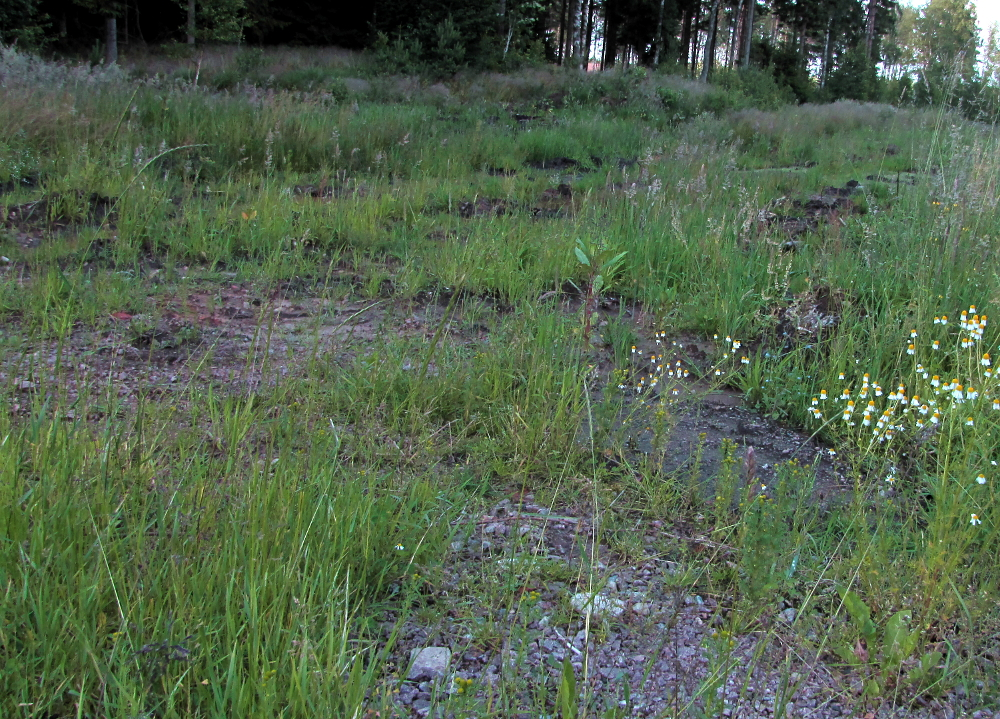 Ruderal area